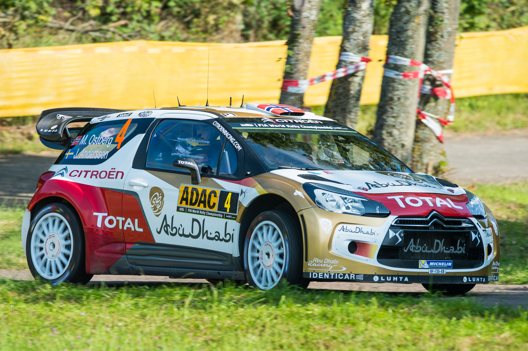 ADAC Rallye Deutschland 2014,Citroen DS3 WRC,Citroen Total Abu Dhabi WRT,Citroen Total Abu Dhabi World Rally Team,FIA,FIA World Rally Championship,Jonas Andersson,Mads Ostberg,Motorsport,Rally,Rallye,Shakedown,WRC